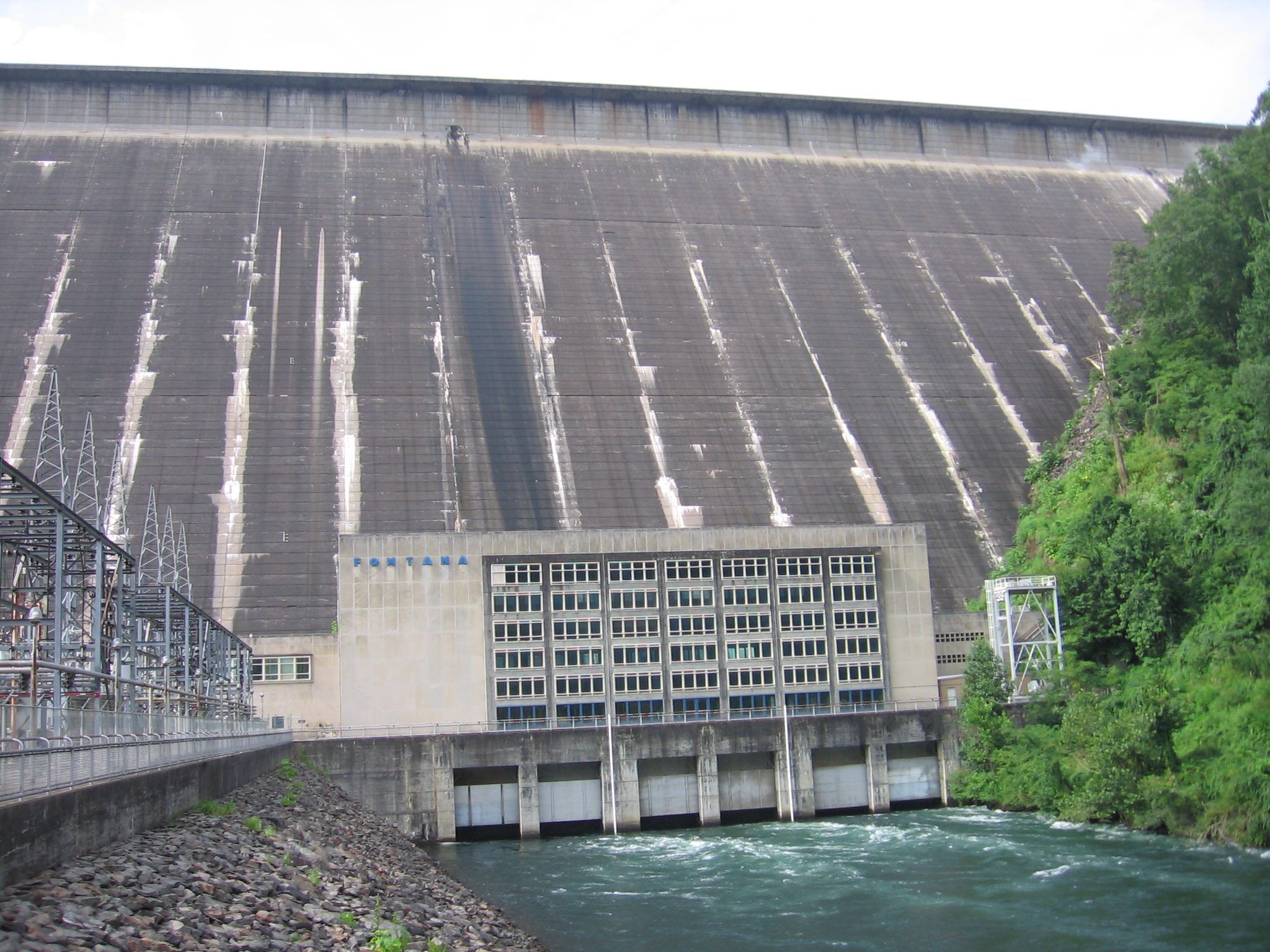 Fontana Dam, a Tennessee Valley Authority hydroelectric facility in North Carolina; powerhouse